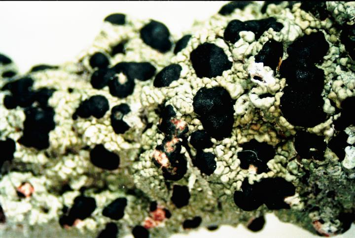 Mycoblastus sanguinarius (L.) Norman, 1926 Photograph of a herbarium specimen taken through a dissecting microscope (x8) shows a bright red pigment in cut apothecia. M. sanguinarius was growing on a dead branch along the trail up Black Mountain, S of Tunk Lake, NE of Ellsworth, Hancock County, Maine, USA (44o35' N., 68o06' W); collected by E.C. Uebel, identified by Dr. Irwin Brodo (No. U-515, 11 Jul 2005)